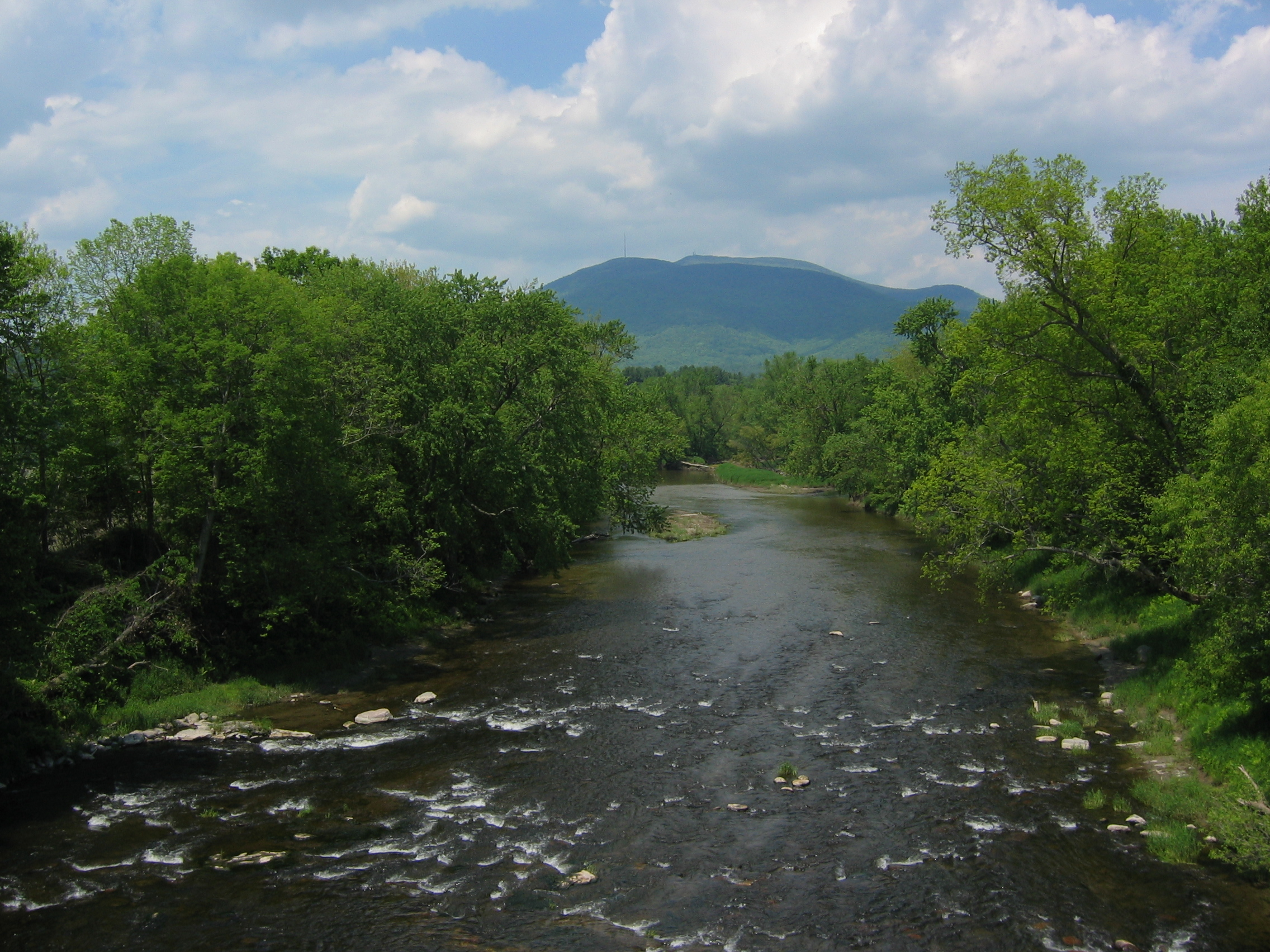 Sugar River and Mt. Ascutney as seen from Claremont, NH